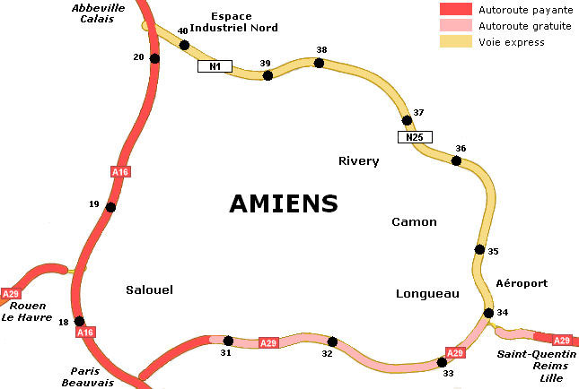 Bypass of Amiens city.